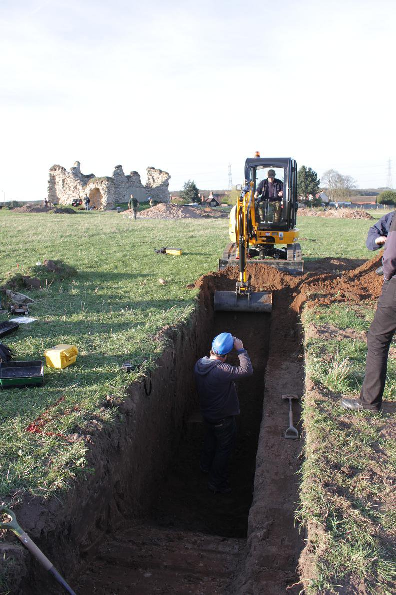 A trench opened up during the Time Team excavation in April 2010 over the boundary ditch of the King's Houses as identified by Andy Gaunt. Gaunt is shown at the bottom of the trench excavating the feature which helped to establish the limits of the site to the south.